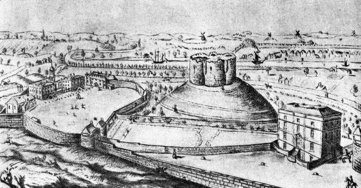 York Castle, seen in 1820